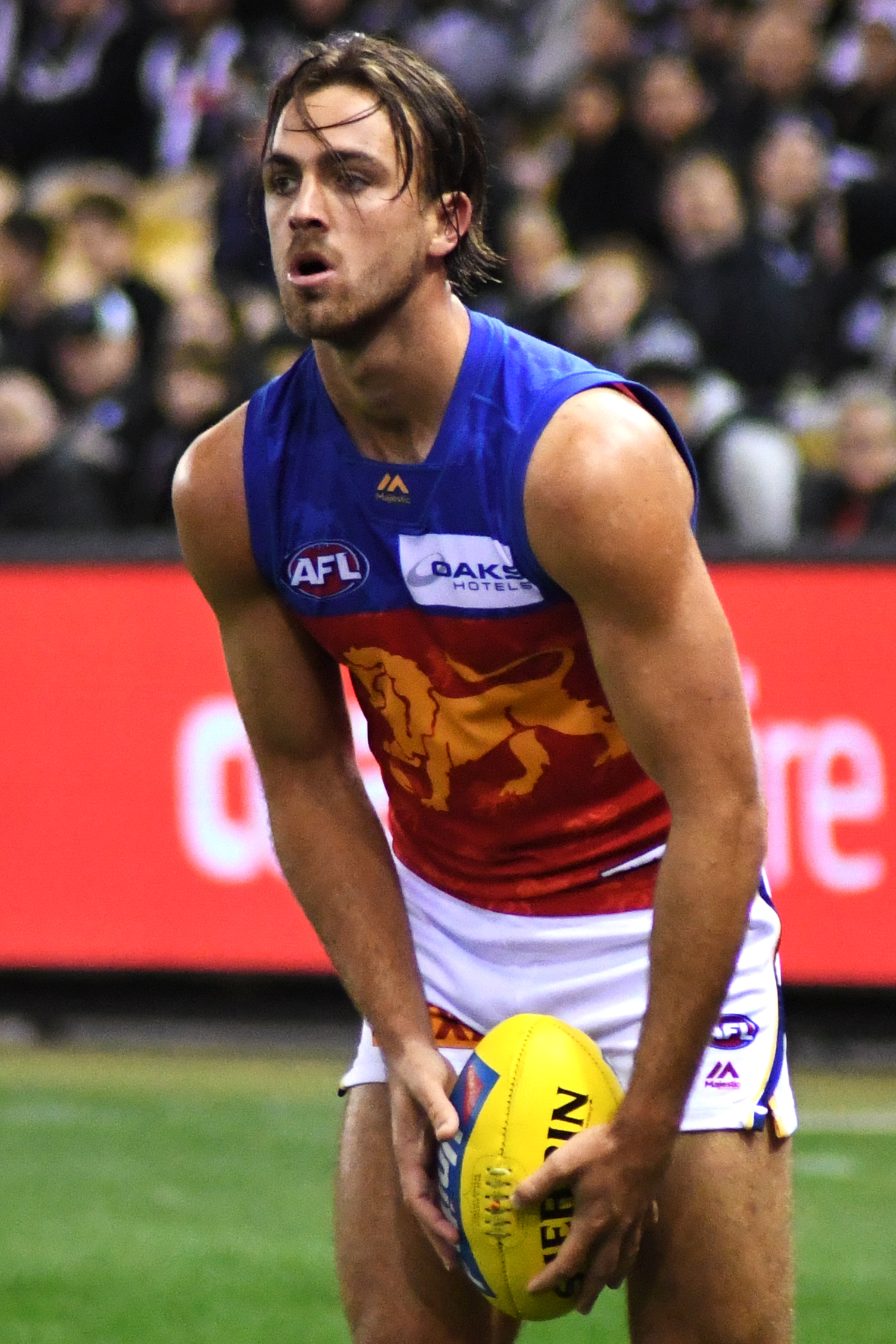 Rhys Mathieson of Brisbane during the 2018 AFL round 21 match between Collingwood and Brisbane at Etihad Stadium on Saturday, 11 August 2018 in Melbourne, Victoria.